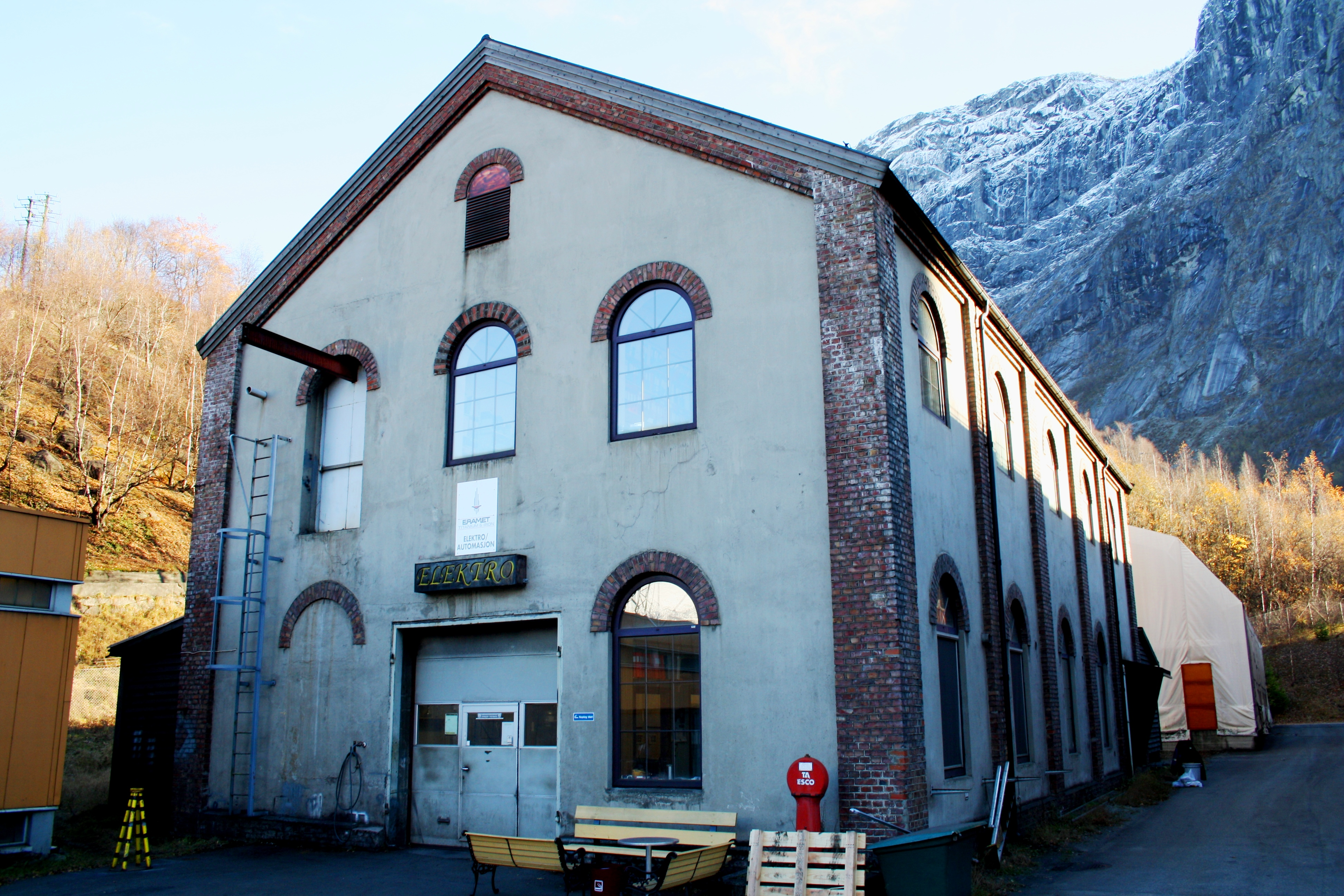 Work shop in Tyssedal, Odda, Norway